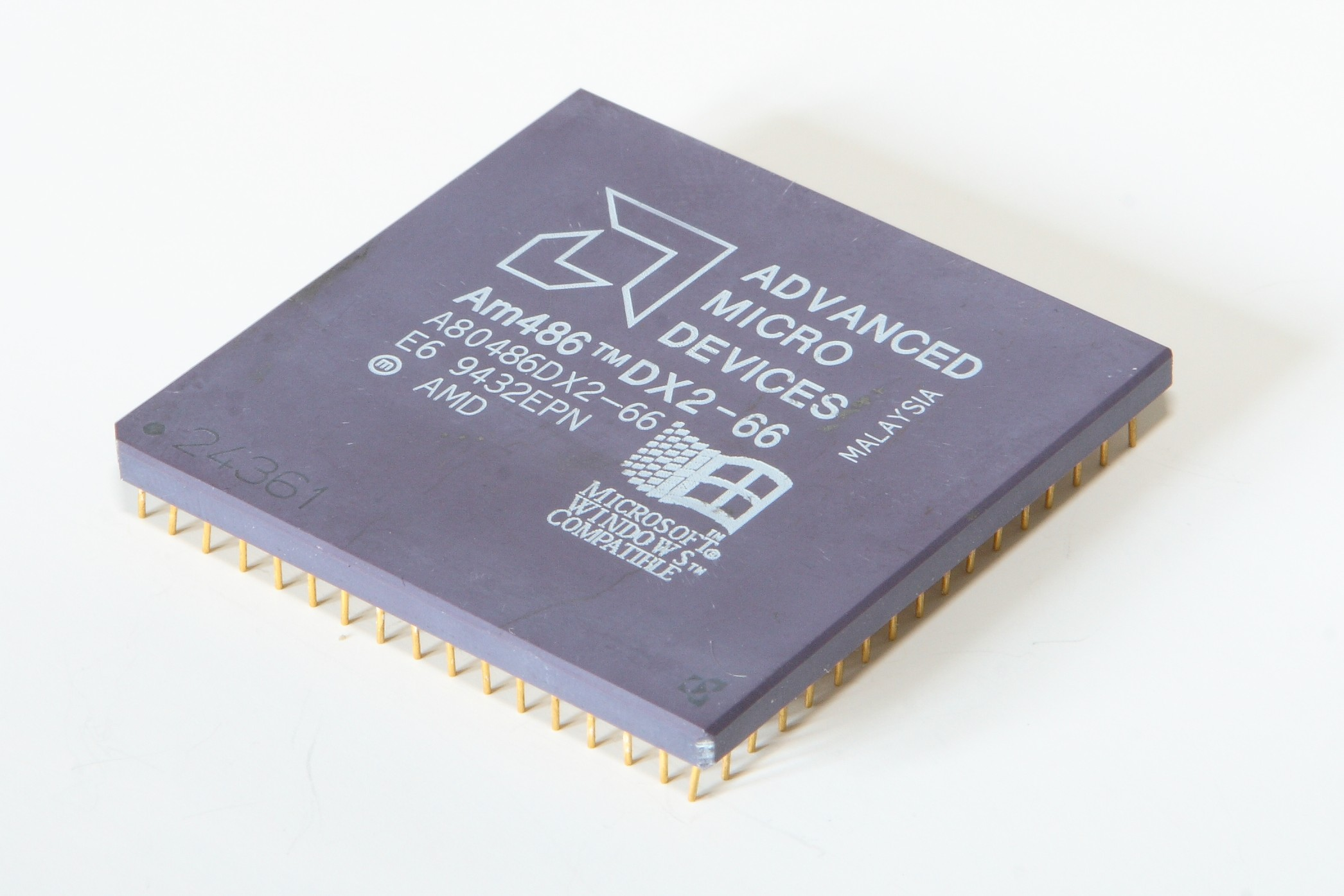 AMD Am486DX2 66MHz Camera data Camera Canon EOS 30D Lens Canon EF 24-70 mm 2.8 L USM Focal length 70 mm Aperture f/19 Exposure time 15 s Sensivity ISO 100 Image Editing Programs Canon Digital Photo Professional